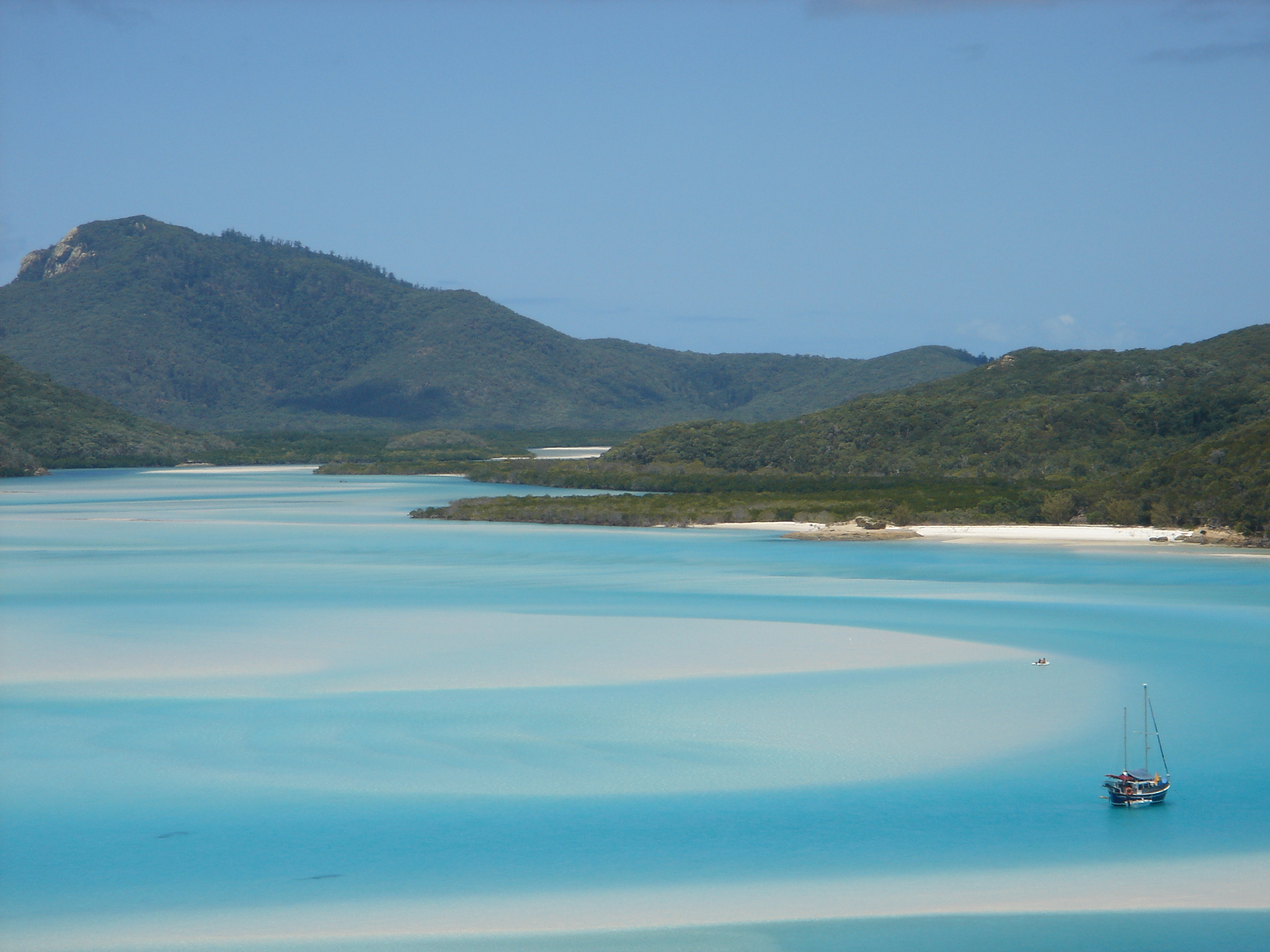 This is a photo of Hill Inlet on Whitsunday Island, Australia.